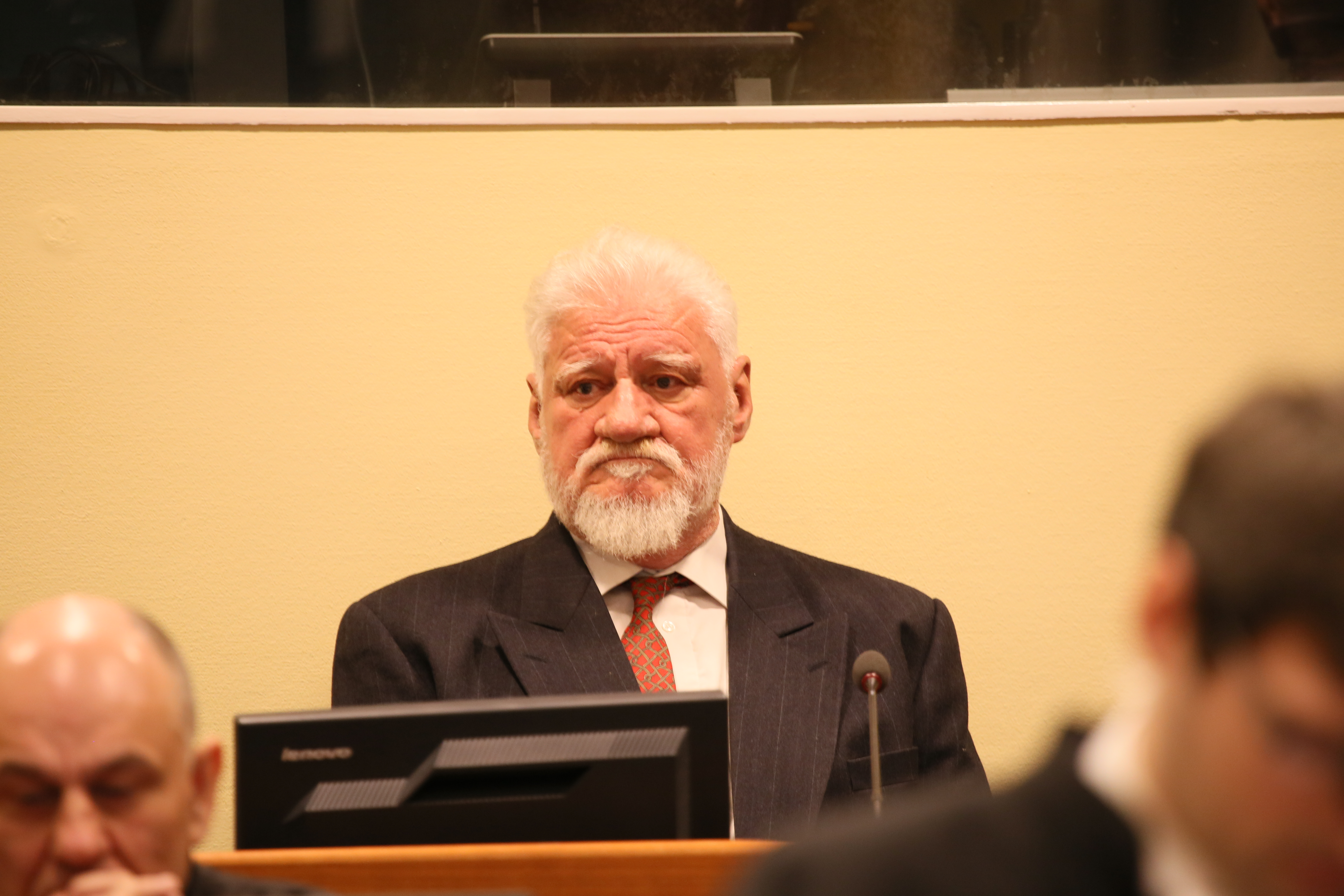 Slobodan Praljak, one of the six Defence appellants in the Prlić case, at the Appeals Judgement.